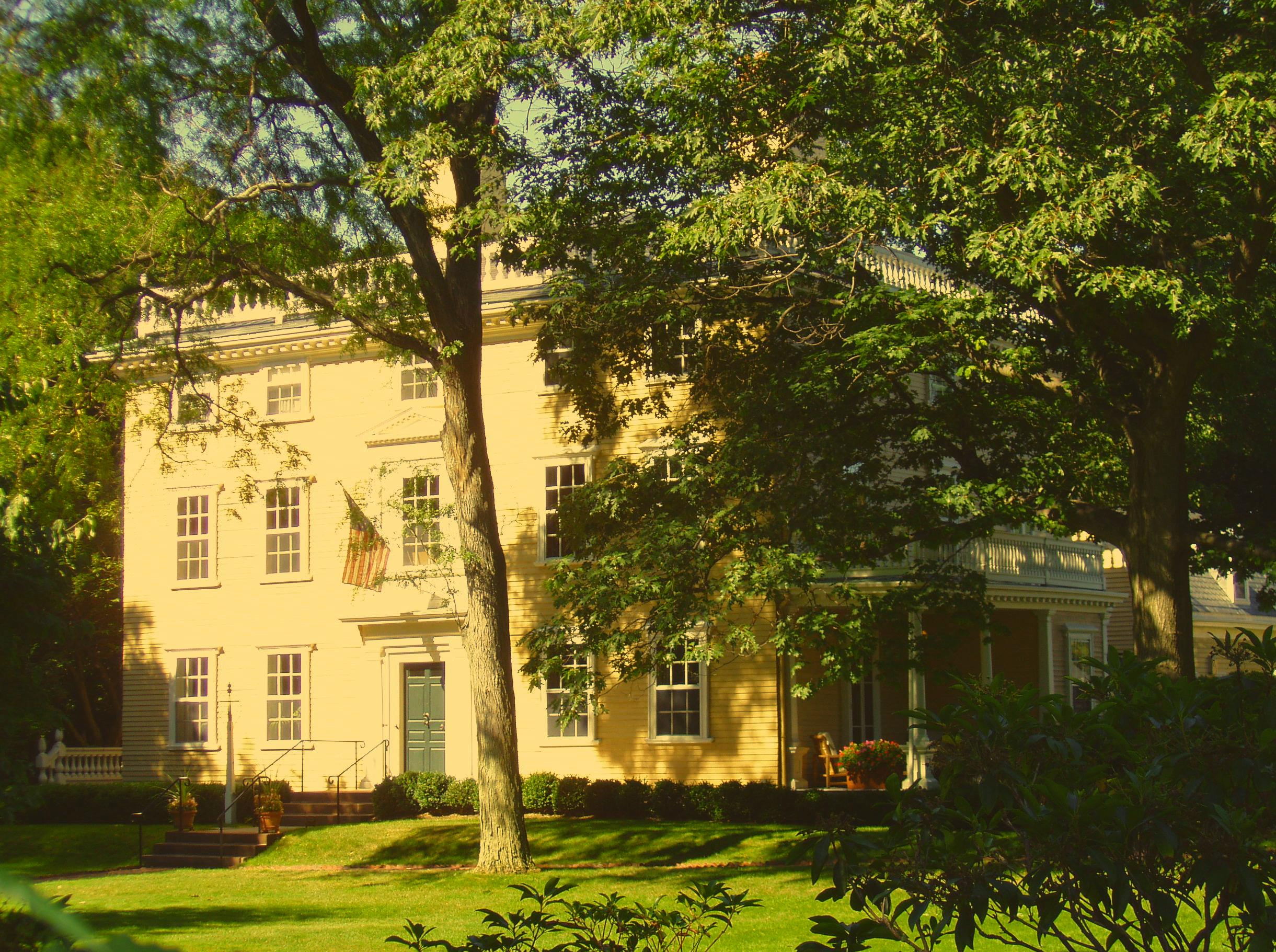 Elmwood, Cambridge, Massachusetts. Home of poet James Russell Lowell etc. Photograph taken by me, September 2005.